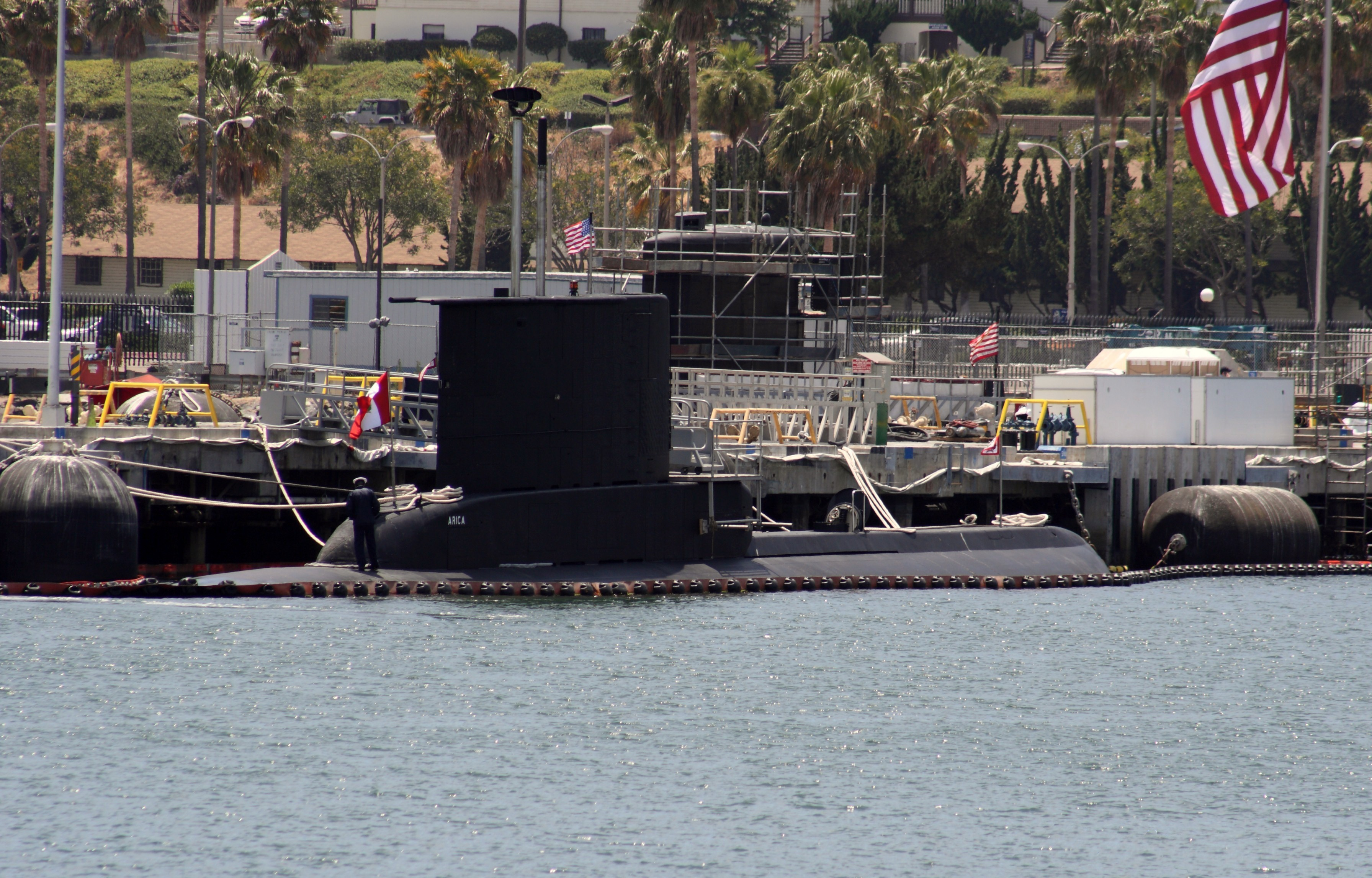 The Peruvian submarine Arica is moored at Naval Station Point Loma.